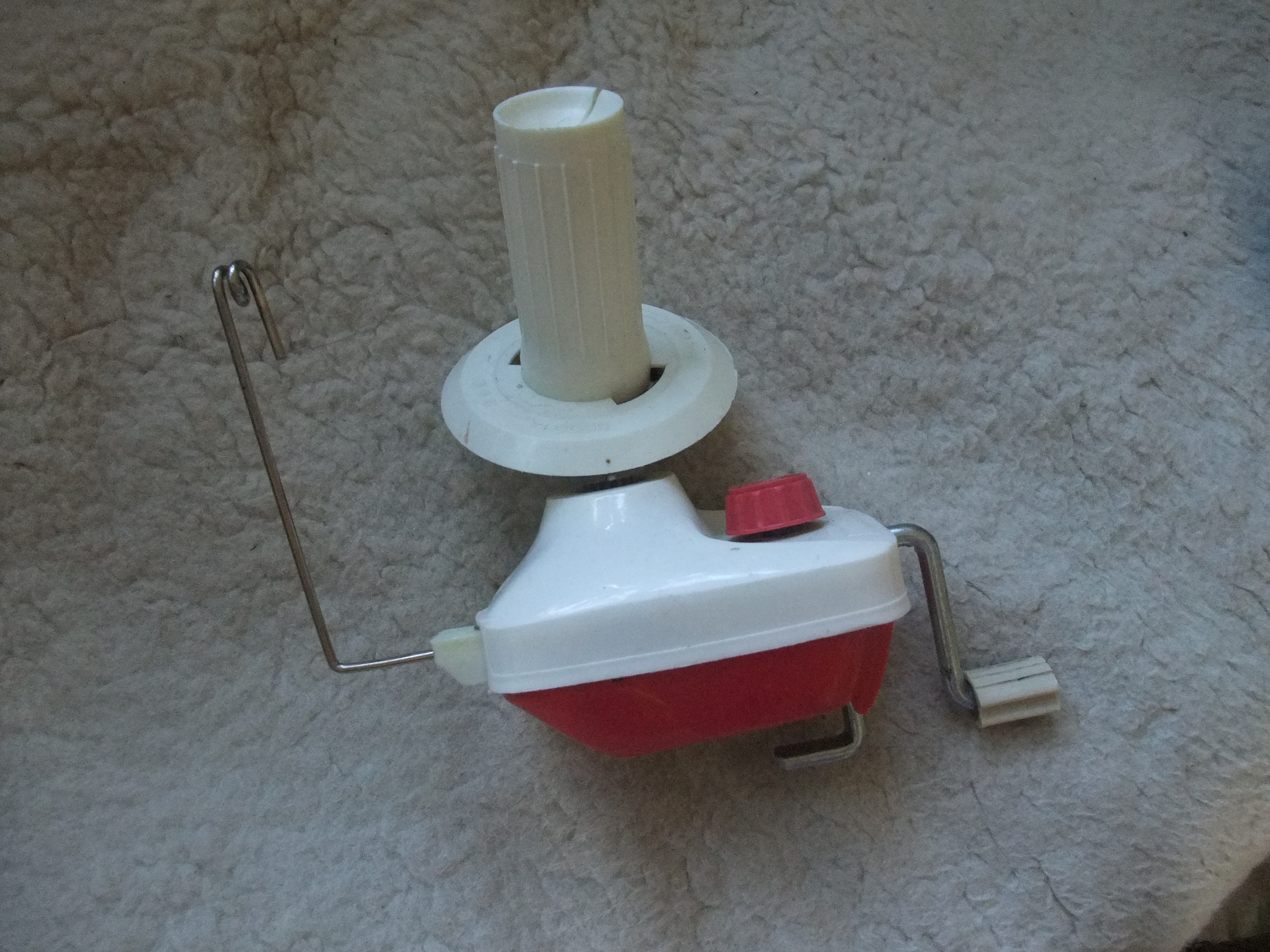 Spolmachine for knitting and crocheing yarn.